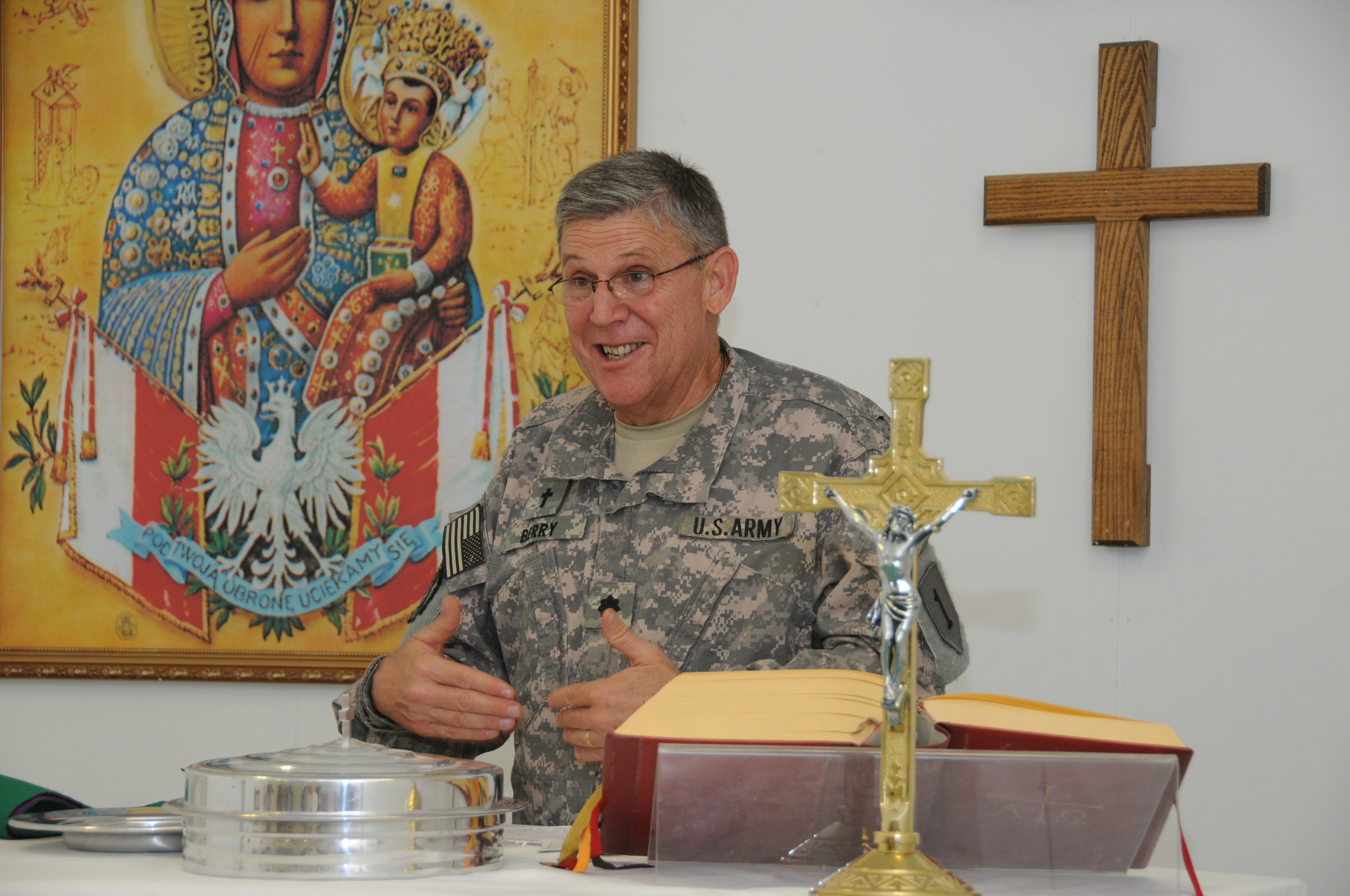 Lt. Col. Kent Berry, an Army chaplain from FOB Mehtar Lam in the Laghman province, Afghanistan, gives a sermon to members of the Provincial Reconstruction Team Ghazni, in the chapel at FOB Ghazni, Afghanistan, Sept. 24. Lt. Col. Berry and his team are visiting the 221st Cavalry Regiment Security Forces members who are currently deployed to Regional Command East, Afghanistan.